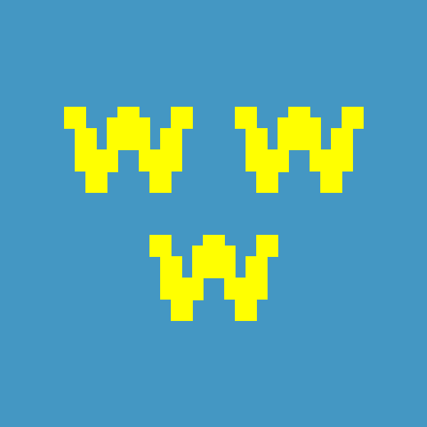 Internetmuseum logotype